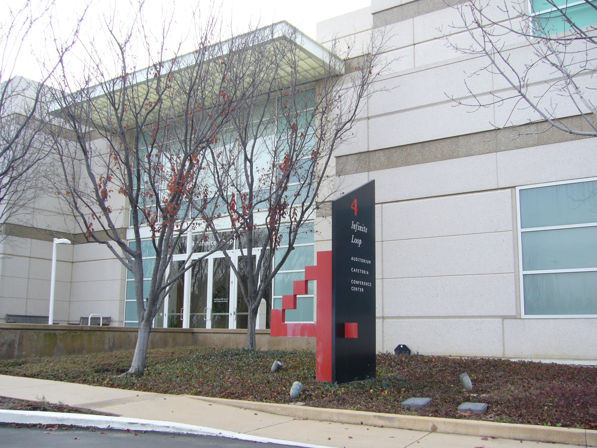 The front of 4 Infinite Loop at the Apple Campus.